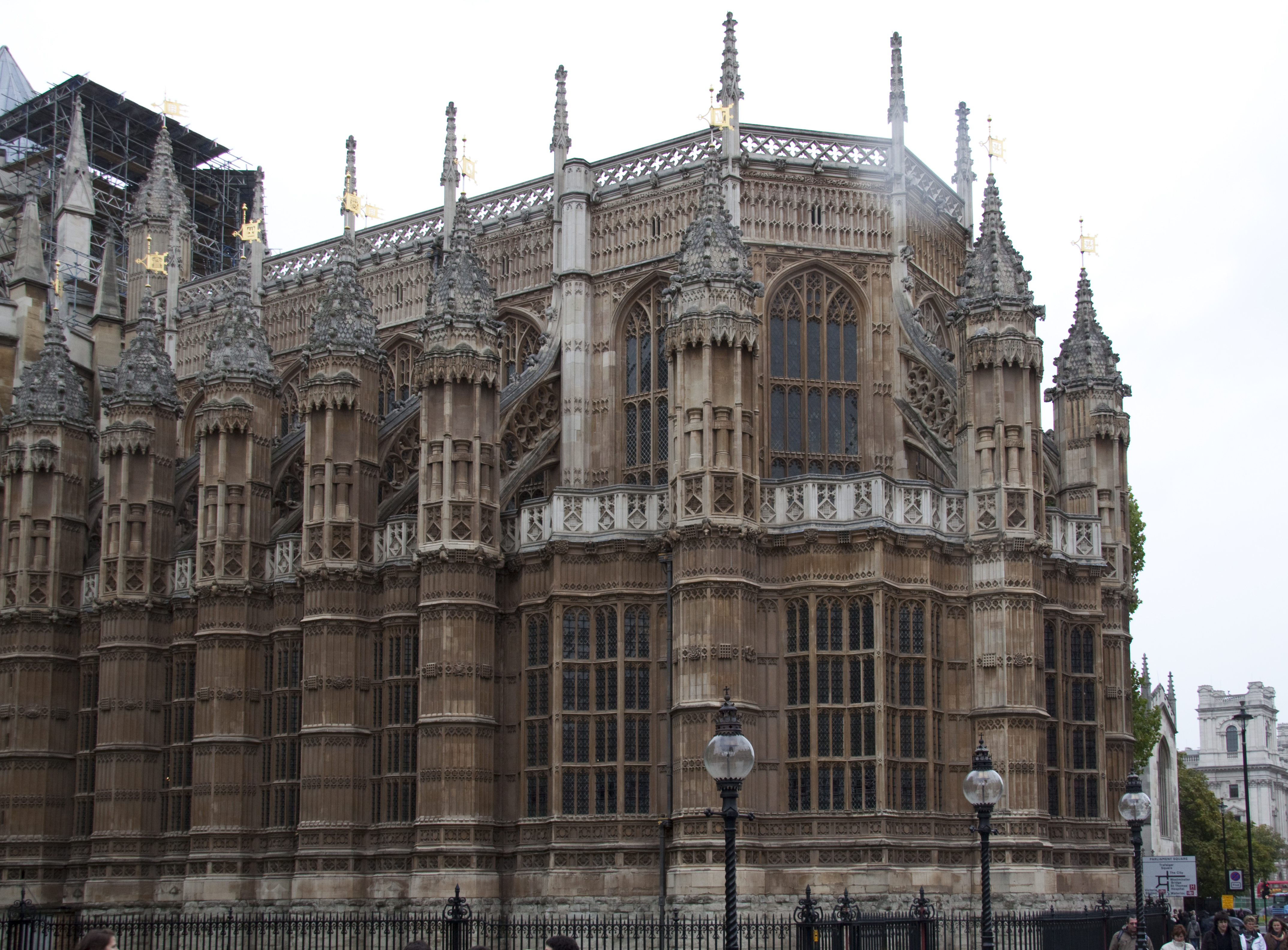 Henry VII Chapel Westminster Abbey 2